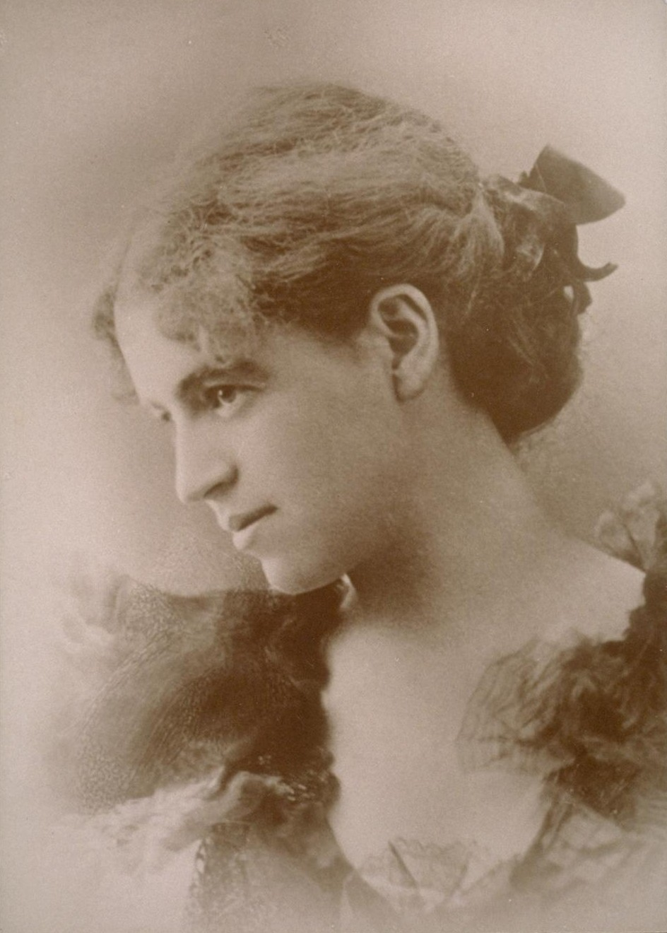 Gift of Mrs. John Partington, 9/11/61 Photograph of Blanche Partington?